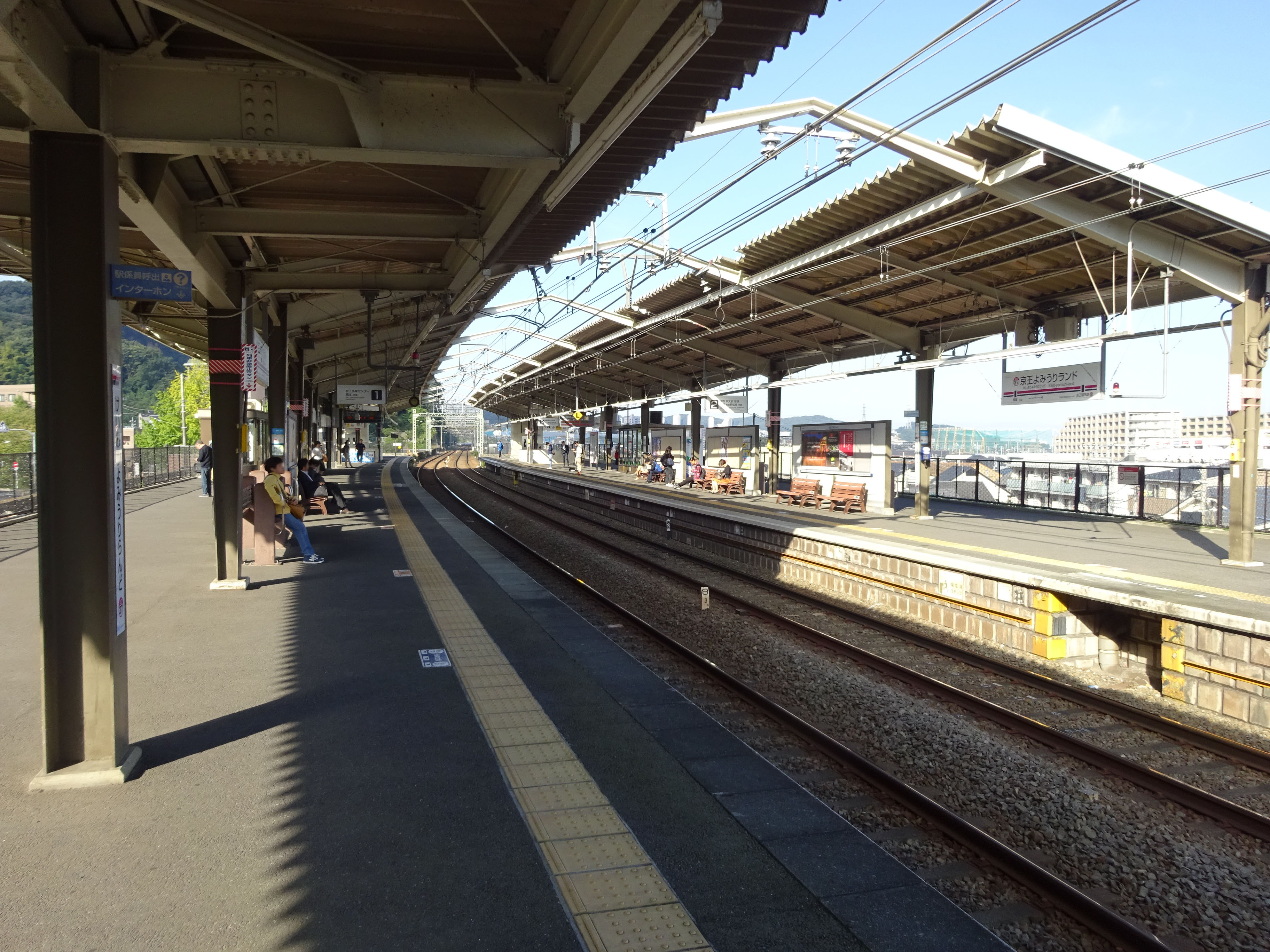 Platforms of Keiō-yomiuri-land Station